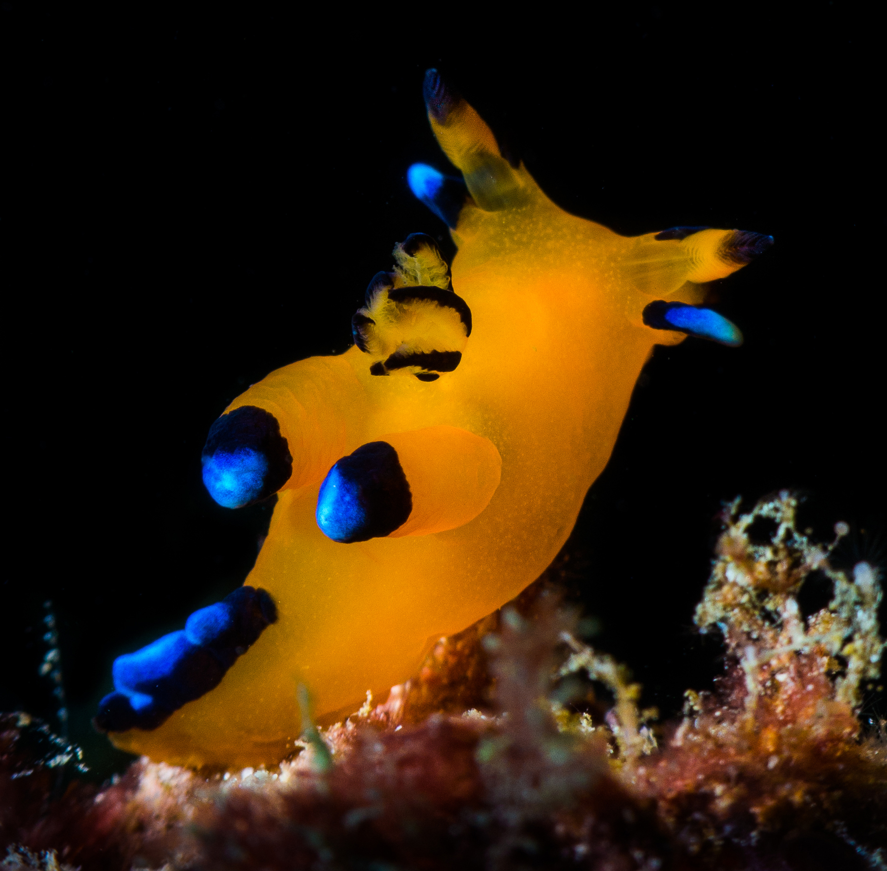 Pikachu Nudibranch (Thecacera pacifica) from Dibba Sea, East Coast of the United Arab Emirates, Gulf of Oman, 19 meters deep.